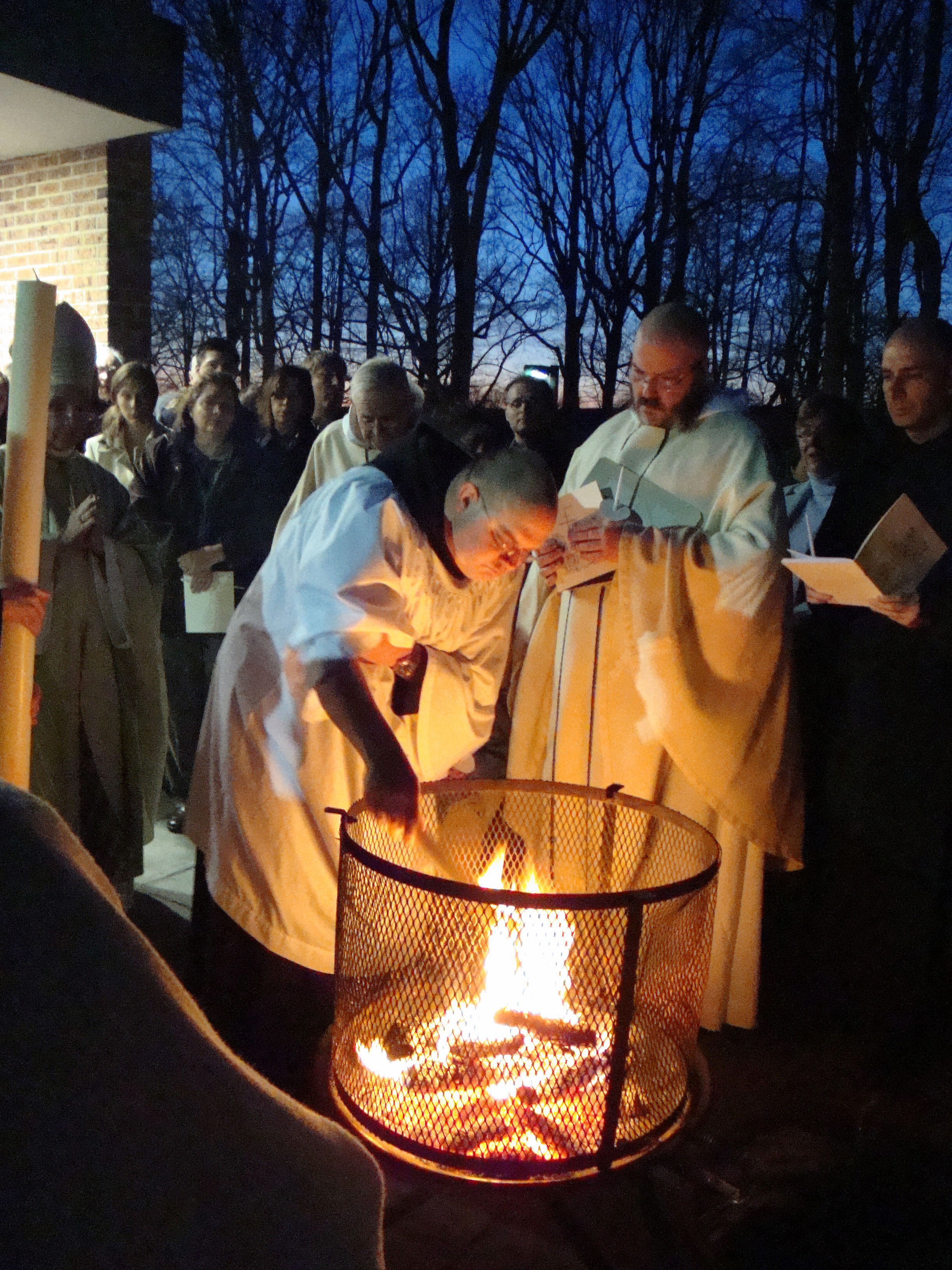 Roman Catholic monks of the Order of Saint Benedict preparing to light the Christ candle prior to Easter Vigil mass at St. Mary's Abbey in Morristown, New Jersey